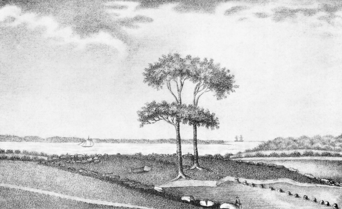 Drawing of the Dolmen near Philippstal.